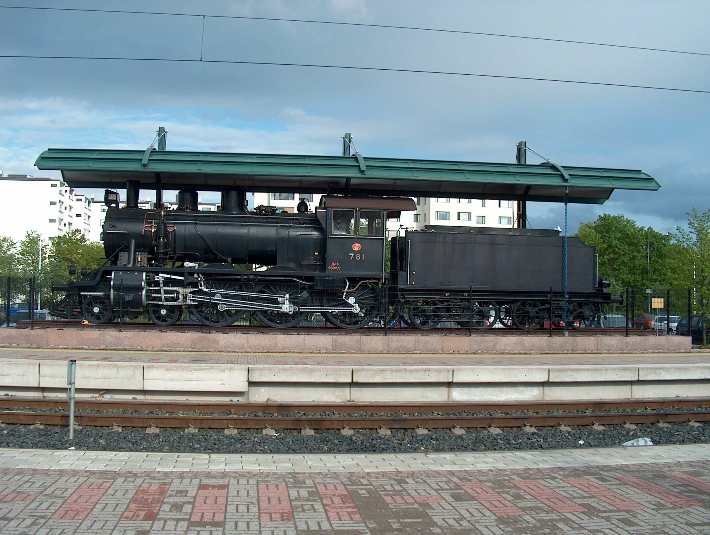 VR Class Hv3 steam locomotive was built in Tampere, Finland. This locomotive is one of the three which are left from 24. This Hv3 number 781 stands at the railway station of Kerava, Finland.